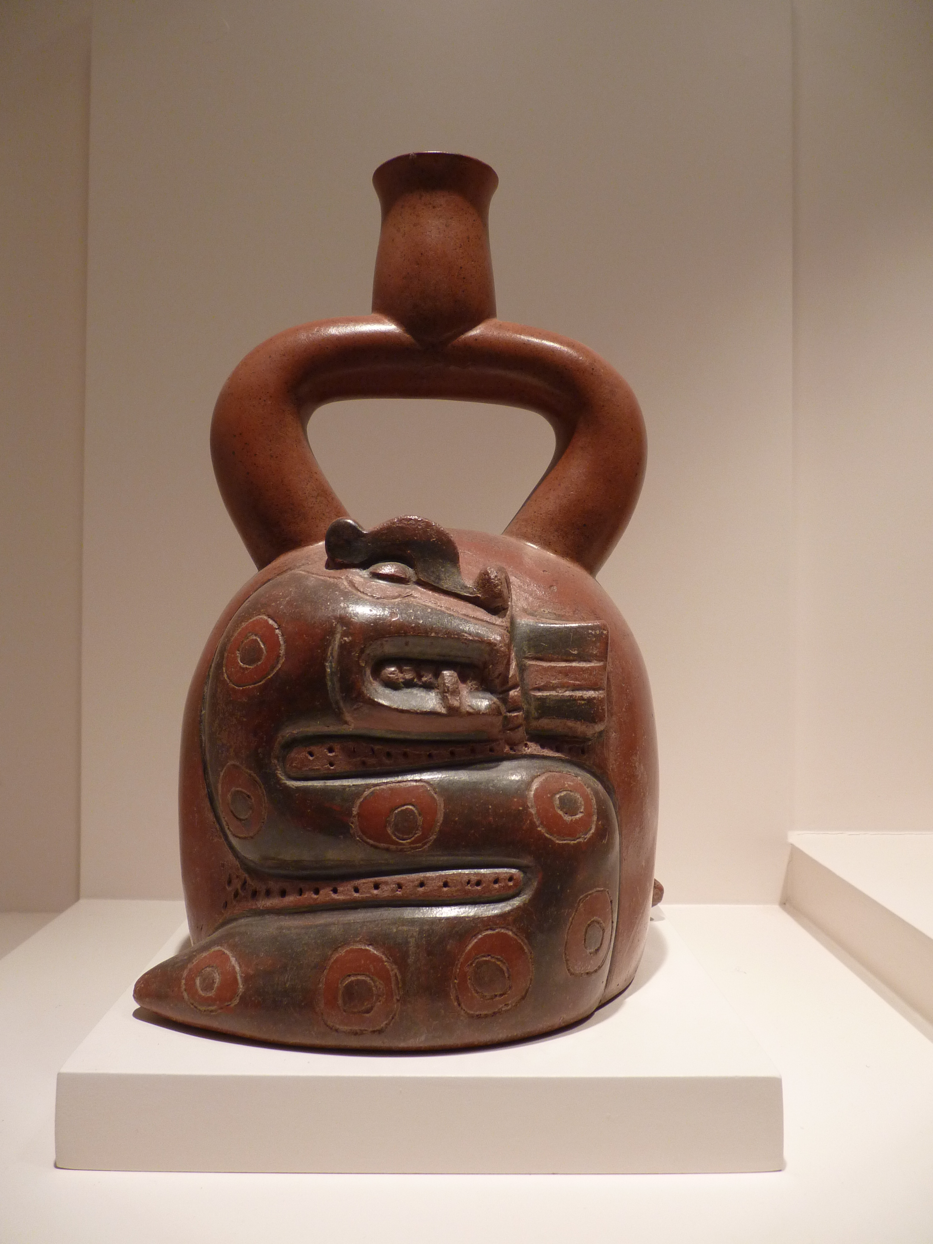 Sculptured bottle, serpents with feline attributes